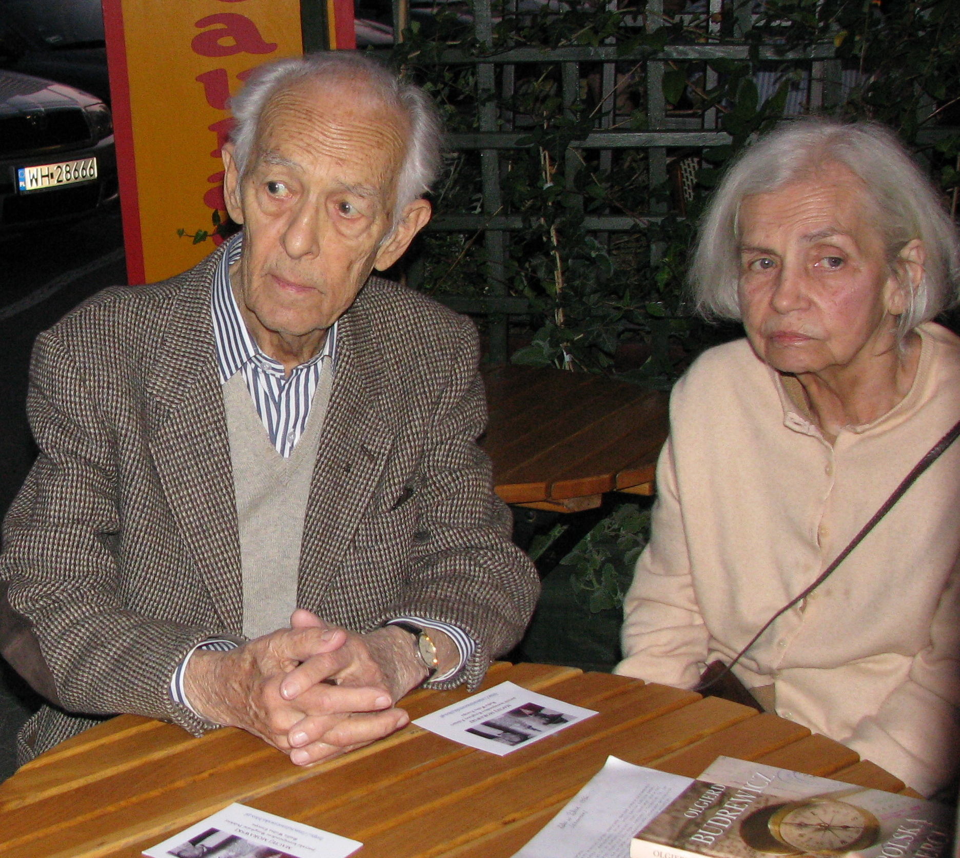 Olgierd Budrewicz (1923-2011) - Polish journalist, reporter, writer, and publicist and his wife, Hanna Kanicka-Budrewicz (d. May 15, 2010)